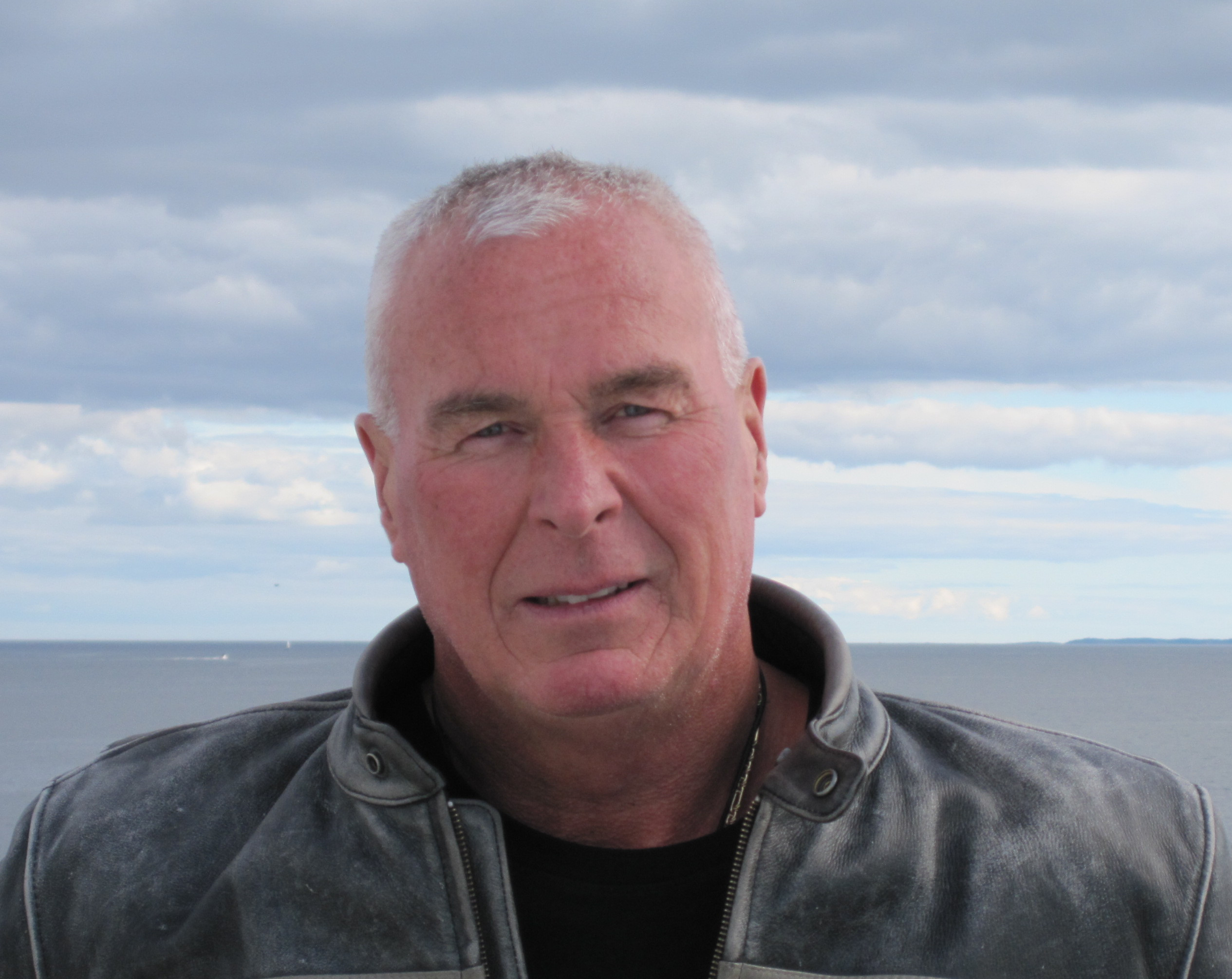 Espen Lie, Norwegian security consultant, photographed summer 2014